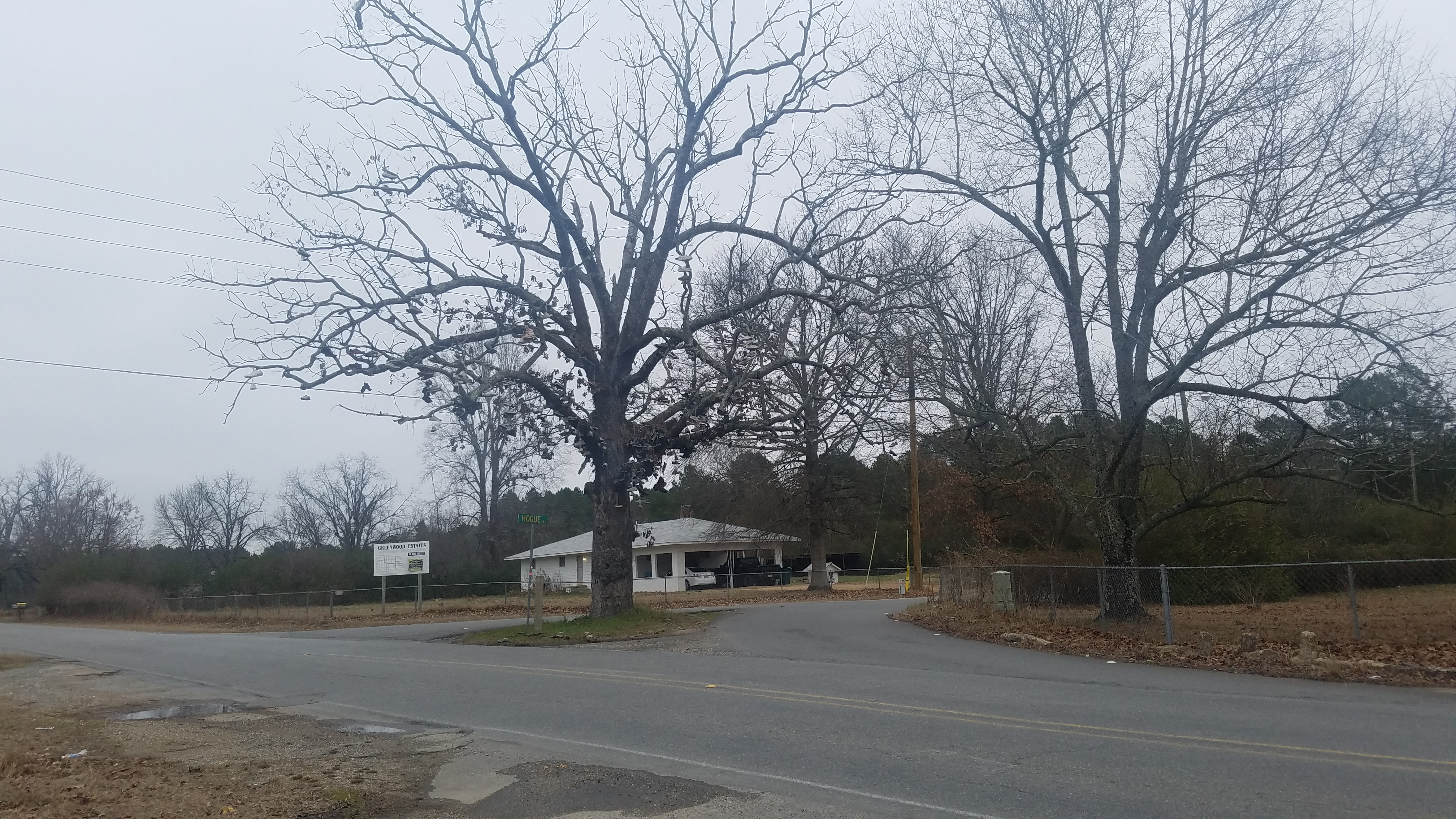 Sardis Shoe Tree, AR